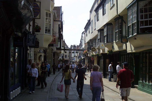 Stonegate in York